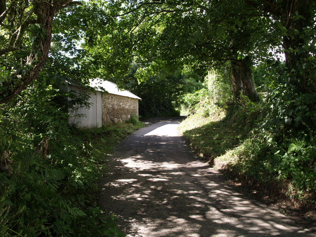 Lane at Higher Town. Looking up the lane, roughly from the point at which 474681 was taken, past an outbuilding. The lane leads towards Mount Pleasant.